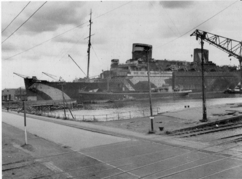 The USS Europa moored at Bremerhaven in May 1945. This image was took by members of the first U.S. unit.